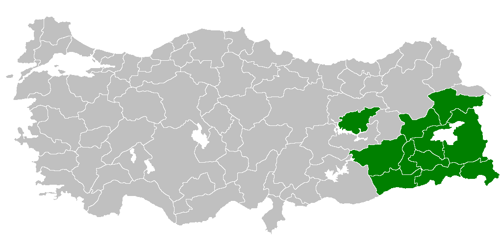 Turkish Kurdistan